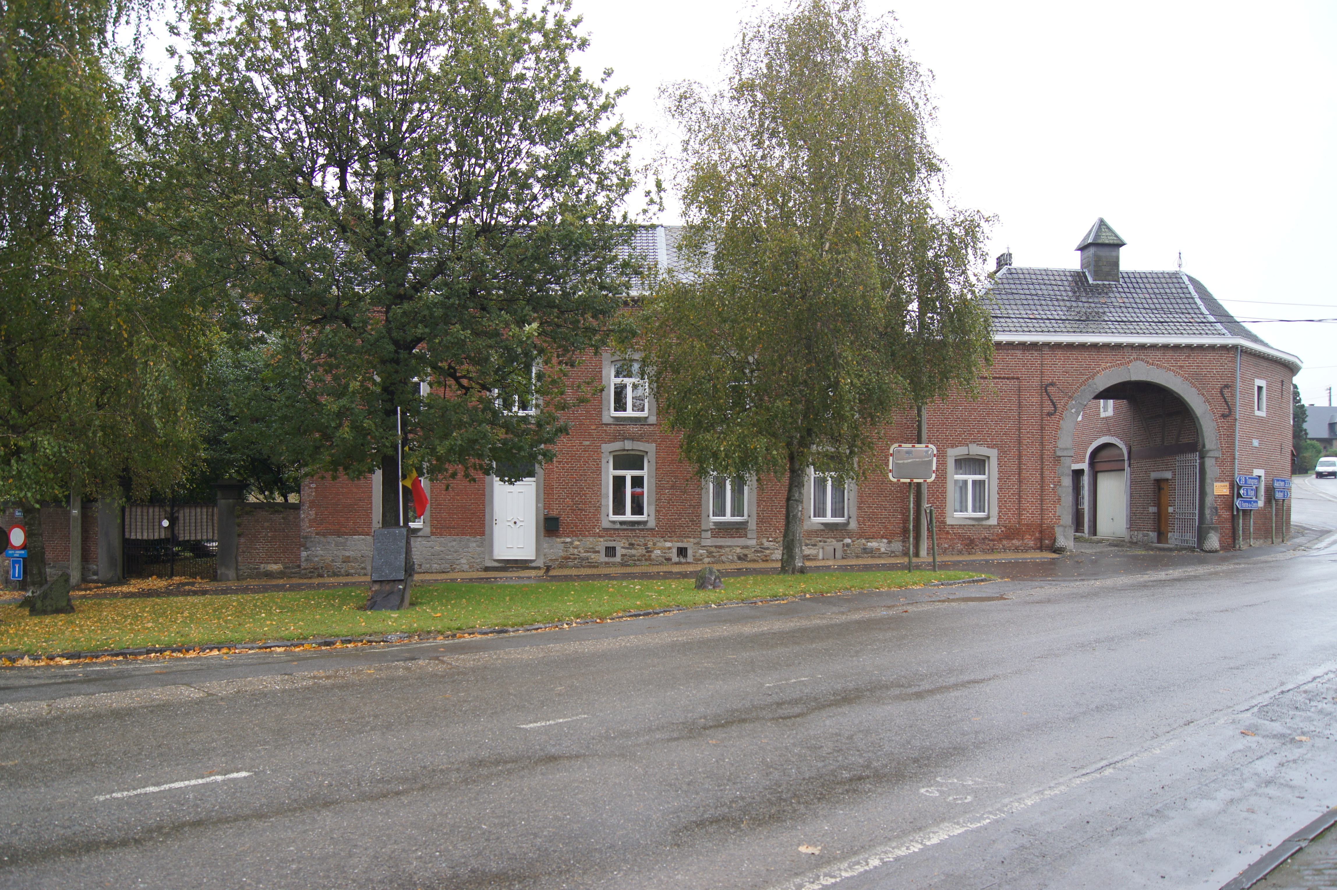 Dalhem (Warsage), Belgium: Farmhous in the Albert Dekkers Street